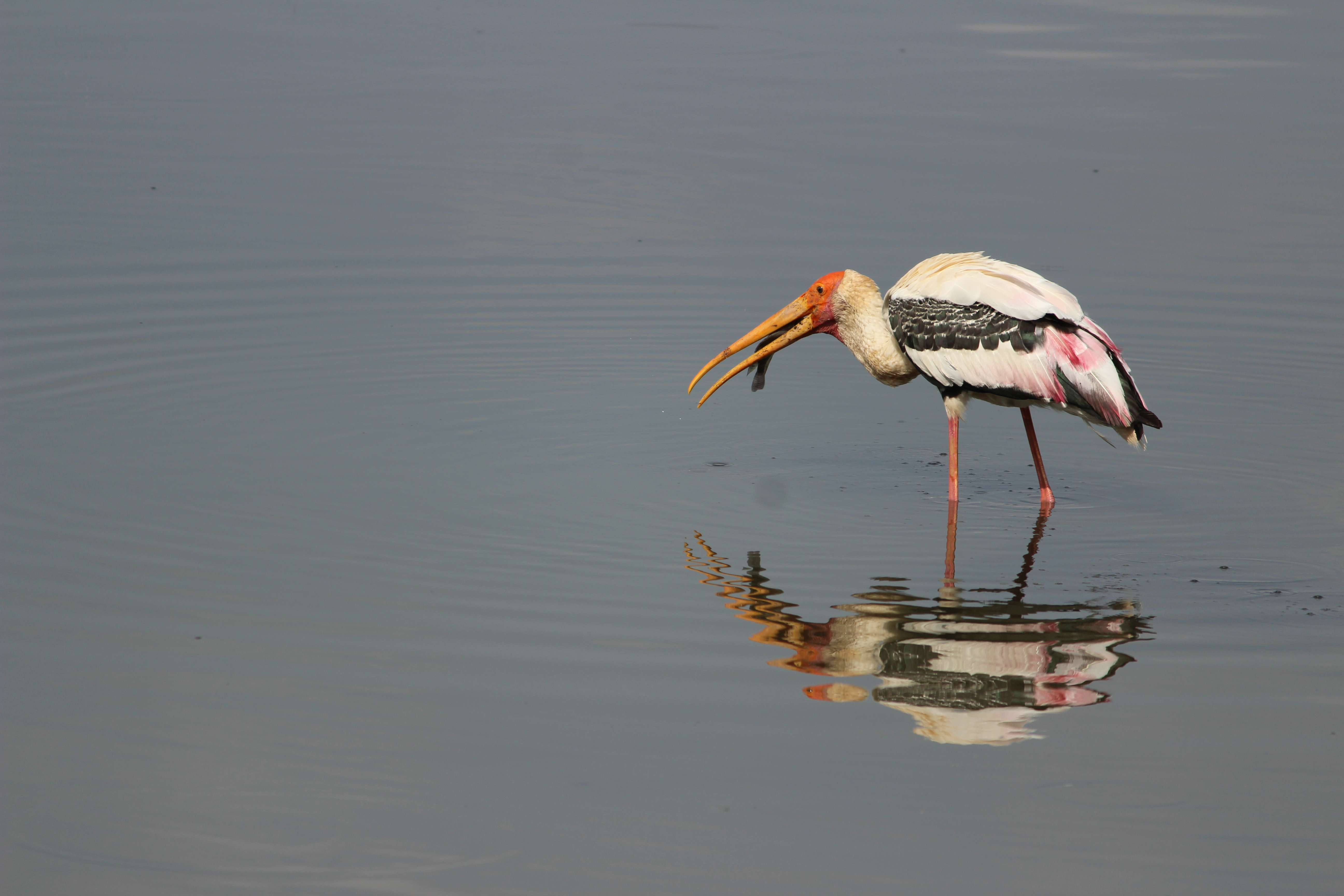 Painted Stork in Bangalore, India